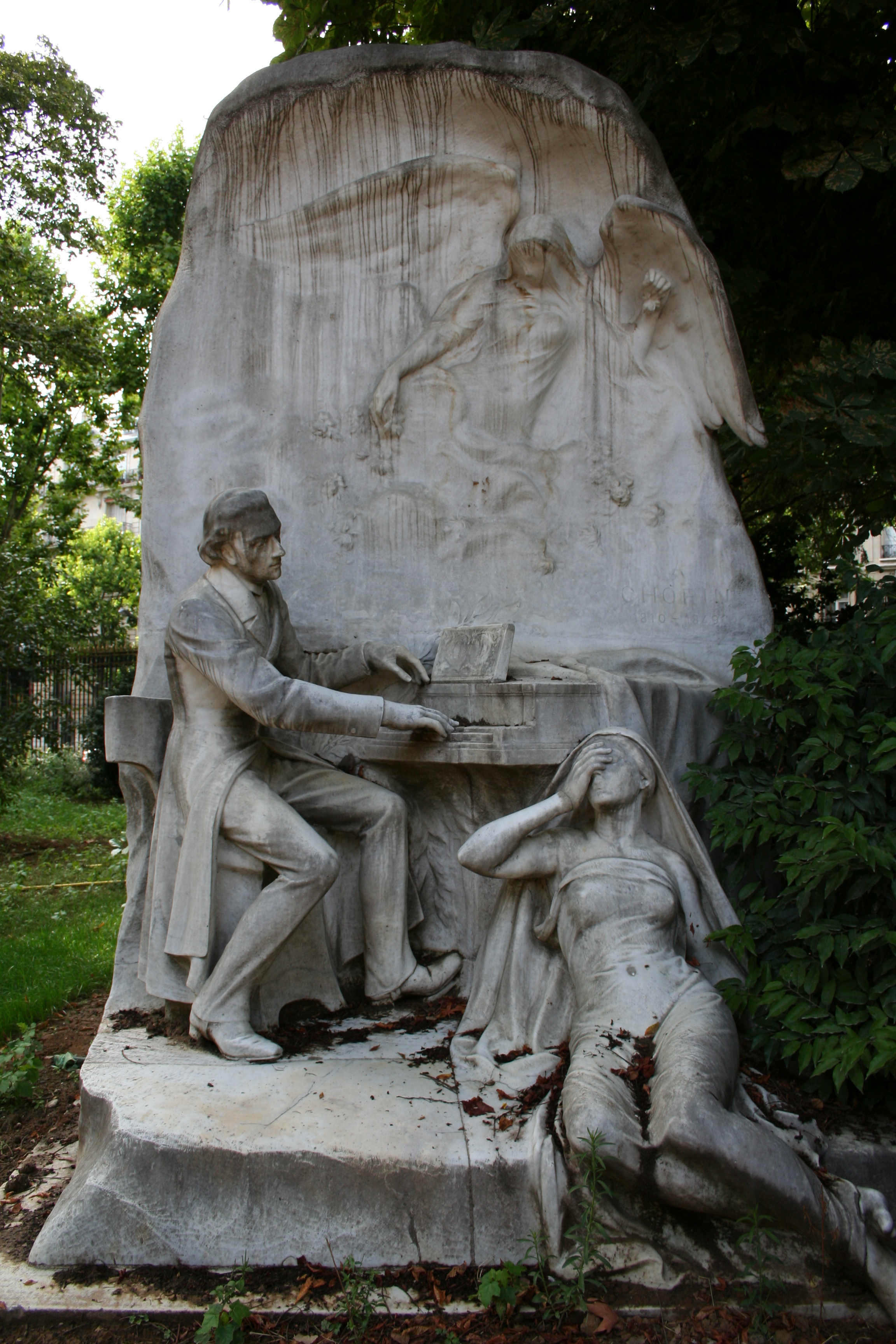 Jacques Froment-Meurice (French, 1864-1947): Frédéric Chopin, 1906, marble, Parc Monceau, Paris, France.